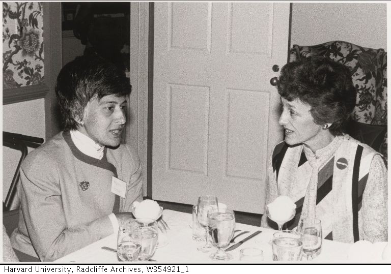 misc/via